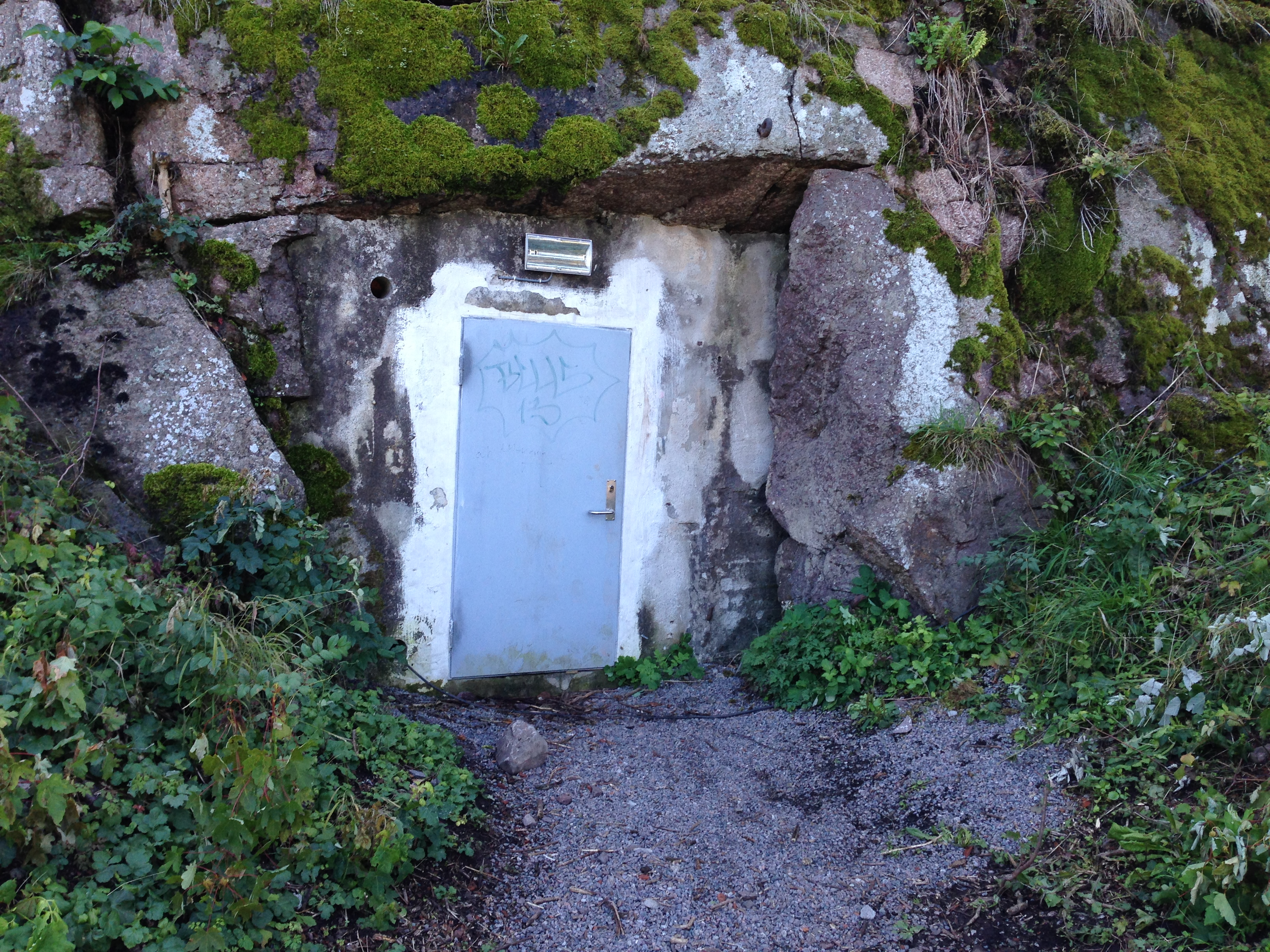 Entrance to the bunker